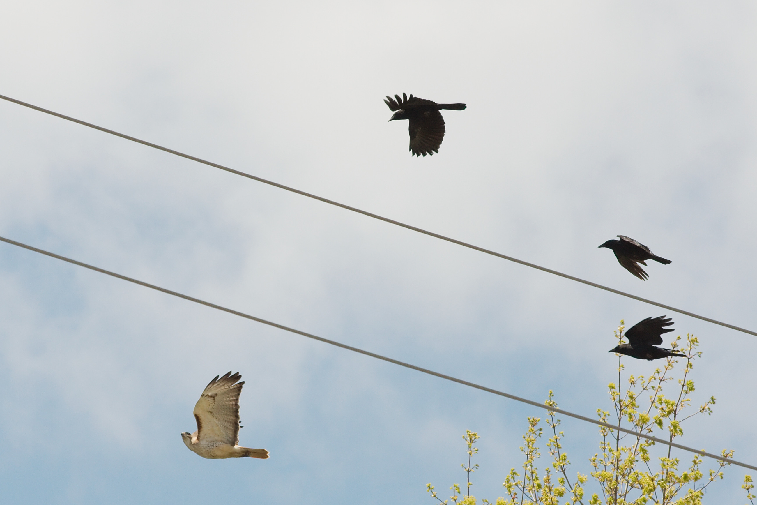 A redtail hawk (Buteo jamaicensis) being mobbed by crows, Ozaukee County, Wisconsin